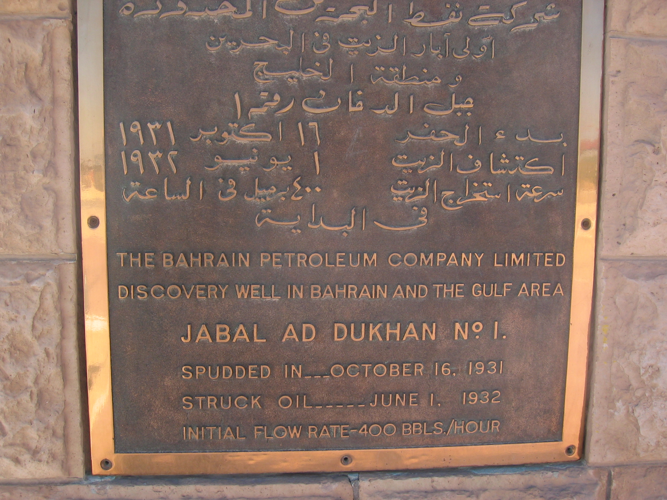 BAPCO